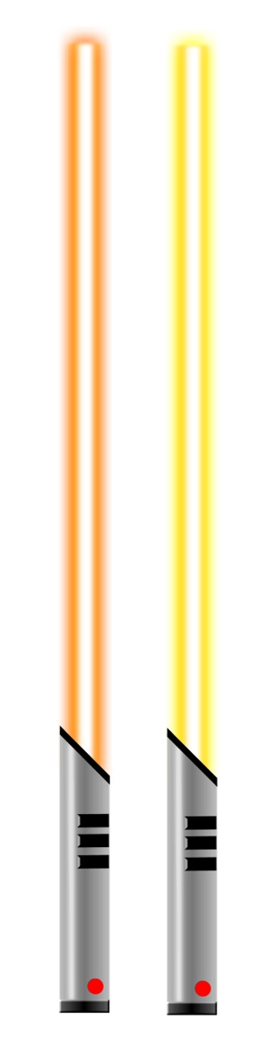 Collection of drawn Star Wars lightsabers. Please notice that orange is not officially ever used in the movies, but used in the computer game Jedi Knight. Some fan fiction and extended material of Star Wars also refer to yellow and orange lightsabers. It appears the first model of the lightsabers yellow in the Star Wars clone wars (season 3, lightsabers yellow model for Ahsoka Tano). In the movie The Rise of Skywalker a yellow lightsaber is seen.